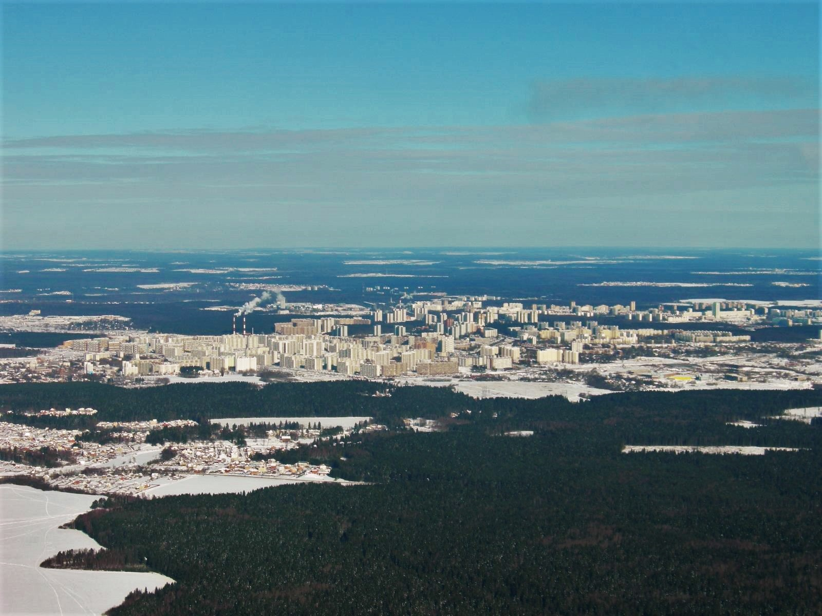 Winter Zelenograd from south side. Airplane snapshot